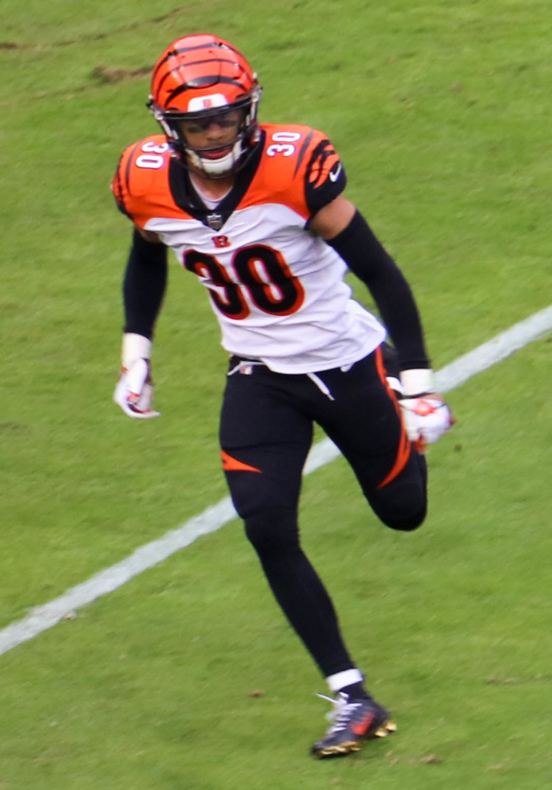 Lamar Jackson of the Baltimore Ravens runs the ball against the Cincinnati Bengals during a 2018 game at M&T Bank Stadium in Baltimore.